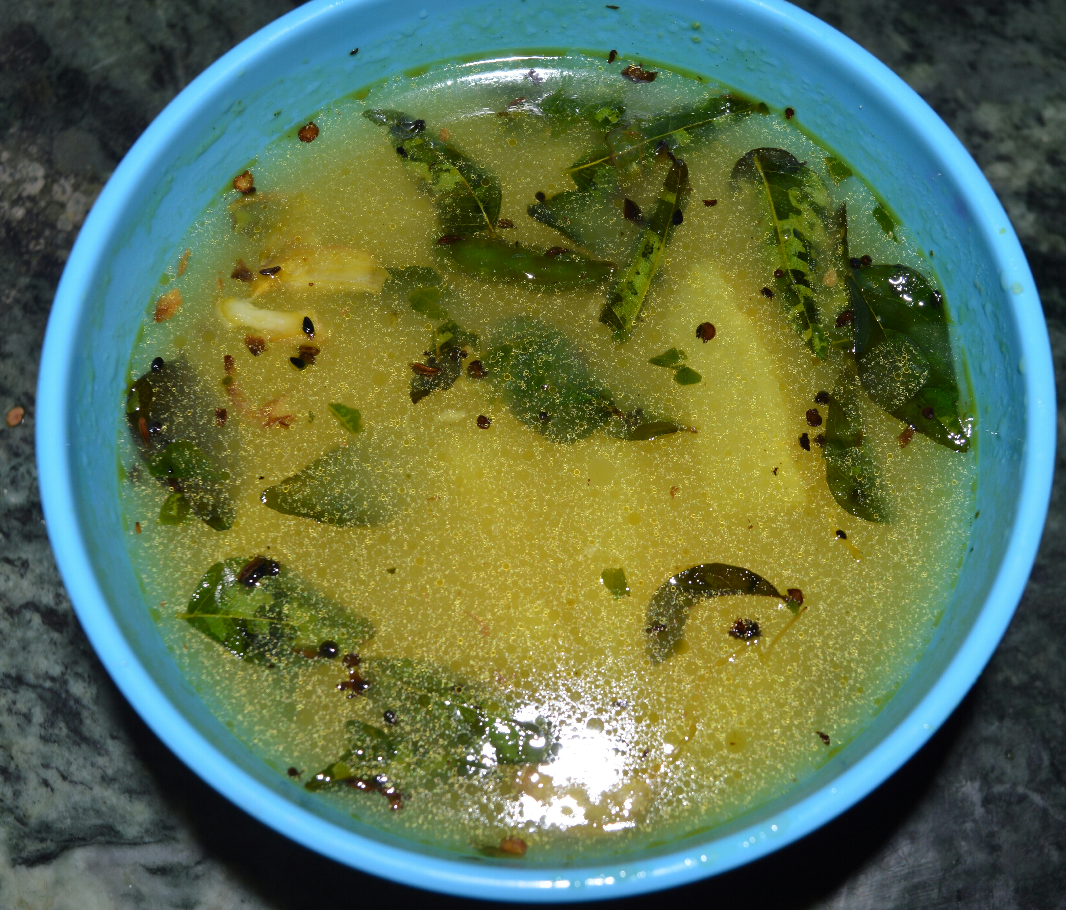 A tangy Odia cuisine prepared using torani and vegetables like papaya, radish and brinjal.